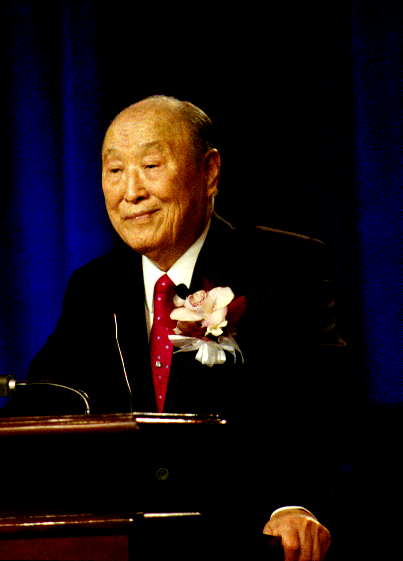 Photo of Rev. Sun Myung Moon speaking in Las Vegas, NV, USA on April 4, 2010.